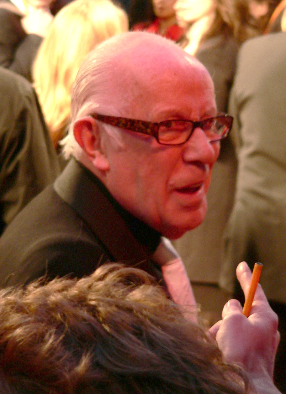 Richard Wilson from the comedy "One foot in the grave" with the famous catchphrase "I don't belive it"